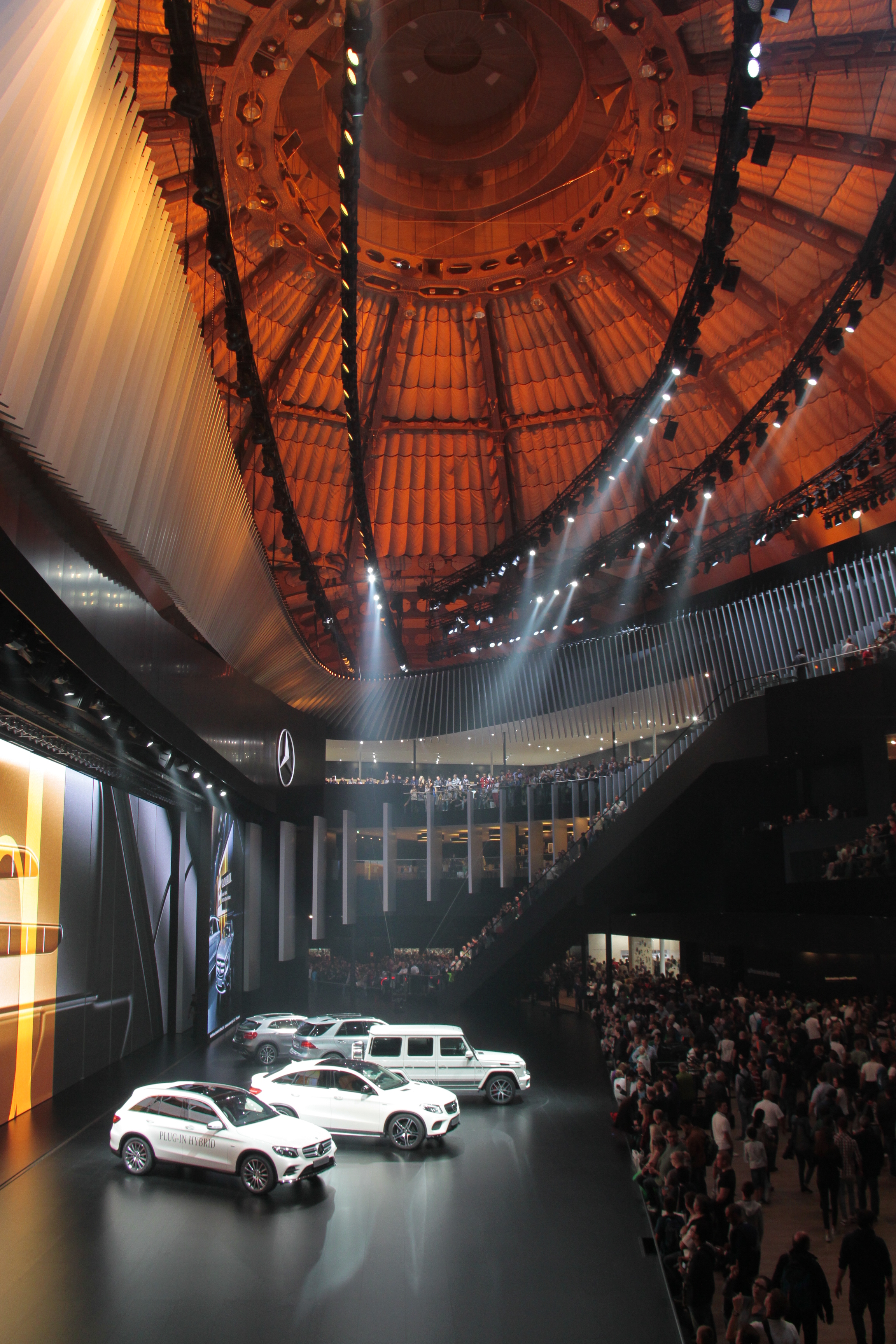 View of the Mercedes-Benz pavilion at IAA 2015